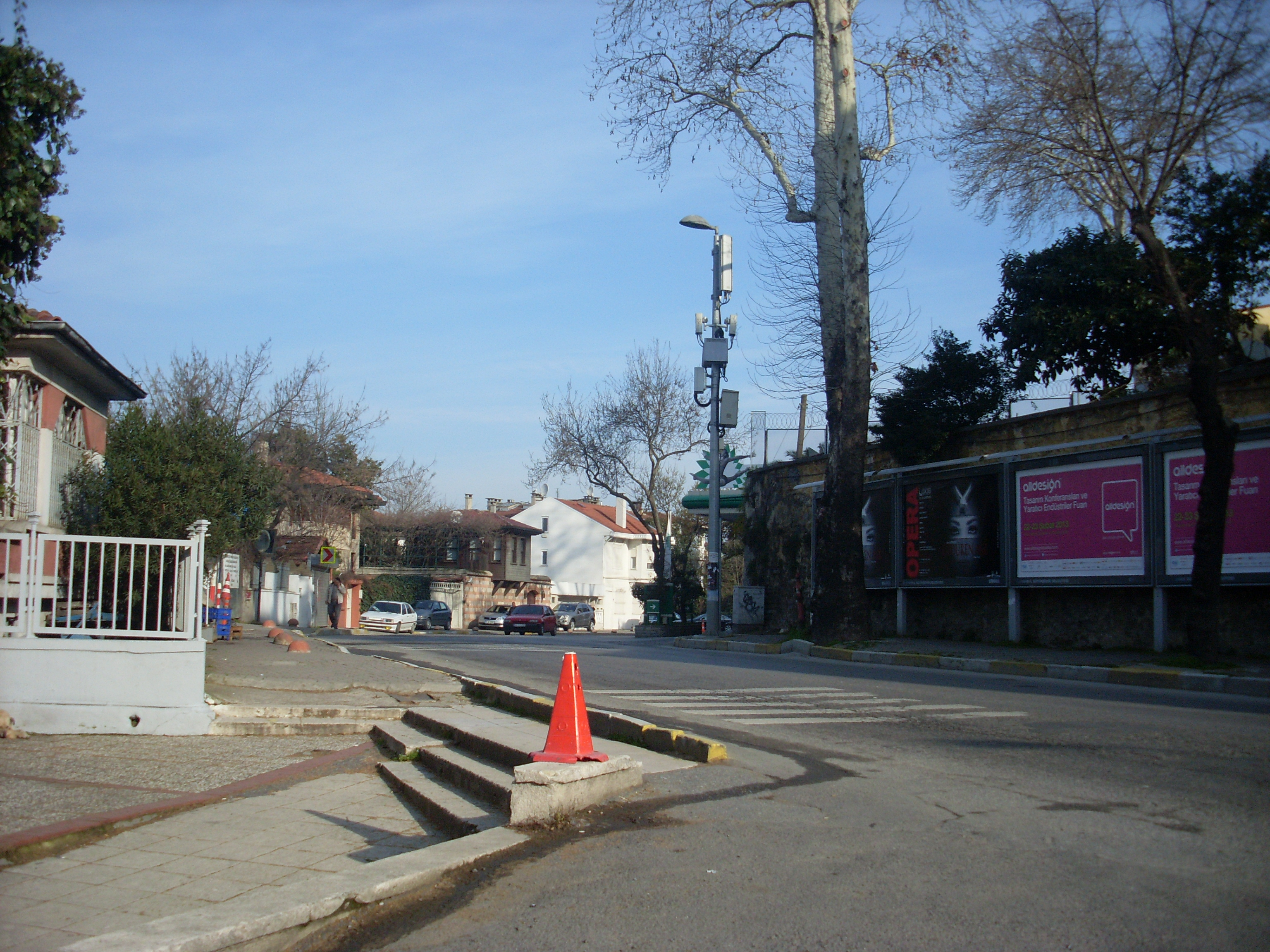 İstanbul - Çengelköy, Üsküdar r13 - feb 2013